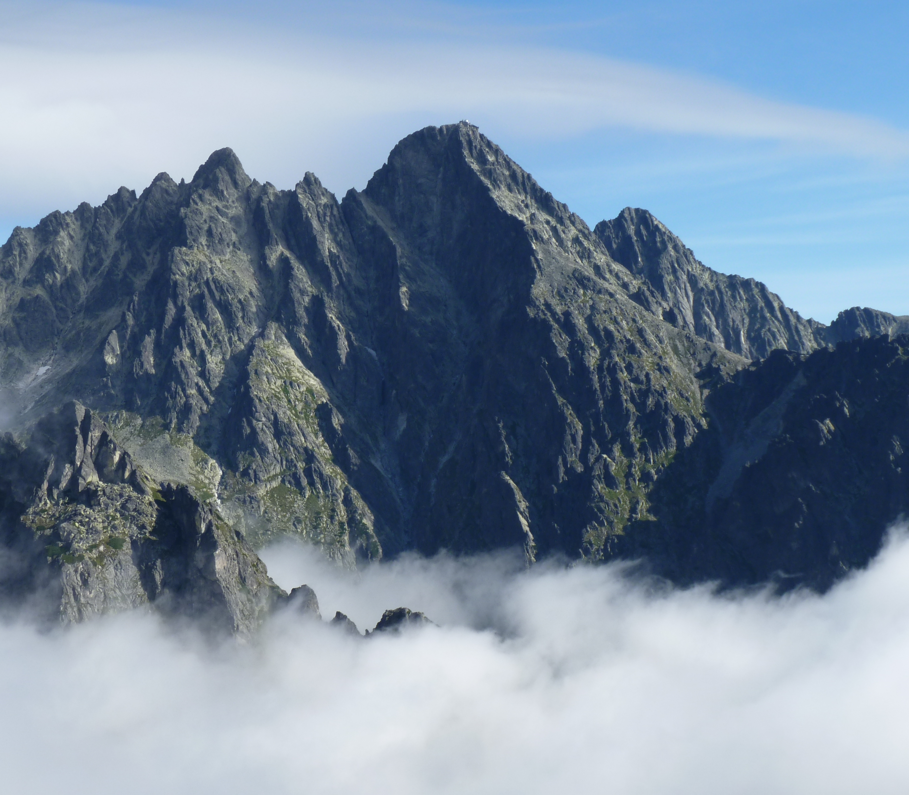 (from the left) Pyšný štít mountain, Lomnický štít mountain, Kežmarský štít mountain. Tatra Mountains, Slovakia